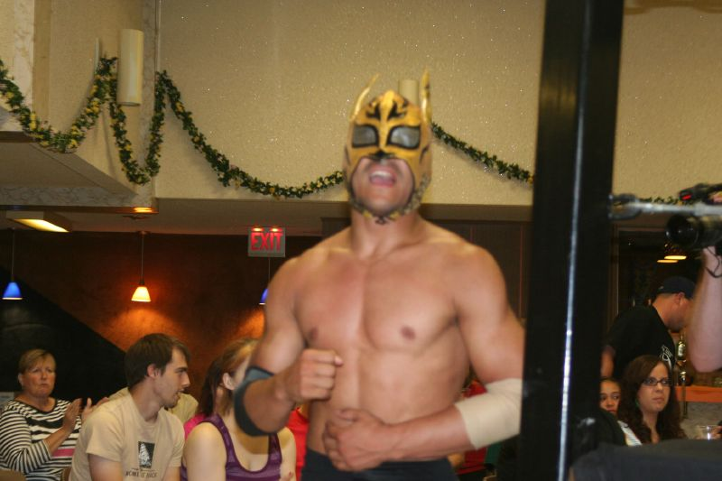 Professional wrestler Lince Dorado at Chikara's YLC 6 Night #2 on June 14, 2008.